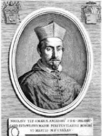 Cardinal Niccolò Albergati-Ludovisi (1608-1687), Archbishop of Bologna and Dean of the College of Cardinals